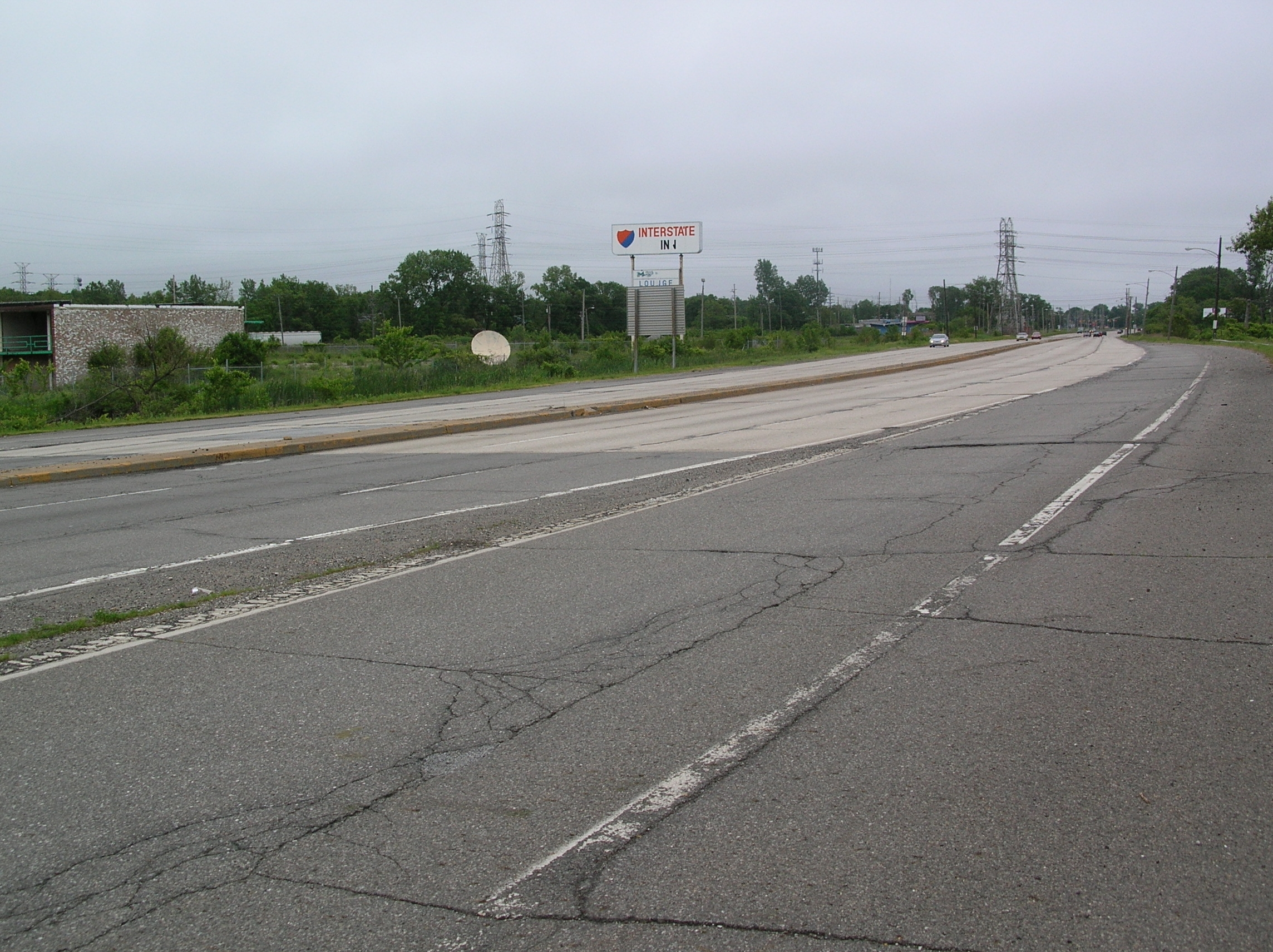 View east along the Dunes Highway (US 12/20) just east of the interchange with Interstate 65, approaching the neighborhoods of Aetna and Miller Beach.